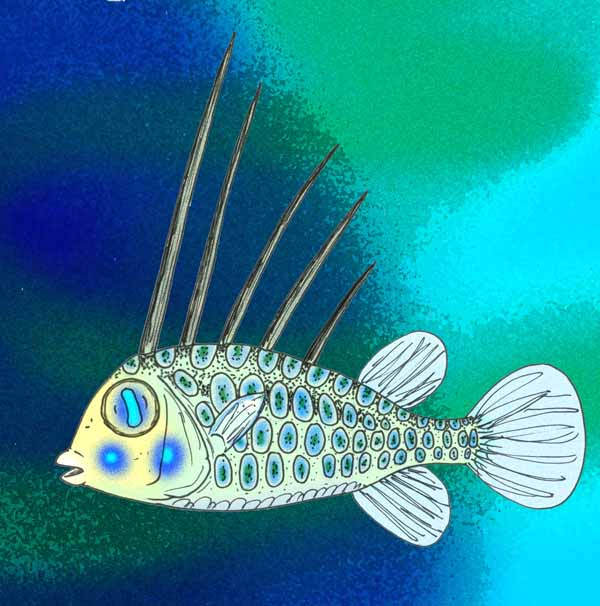 Reconstruction of the spinacanthid tetraodontid, Spinacanthus cuneiformis, from the Monte Bolca lagerstatten, of Ypresian Italy